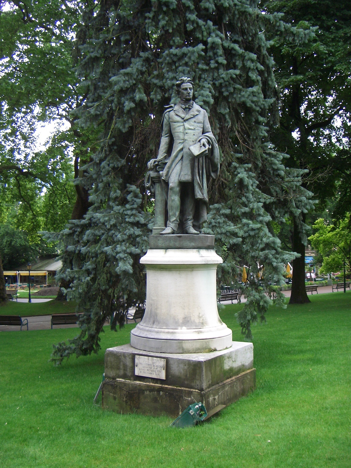 Statue of Alphonse de Lamartine, artwork by Émile Boisseau, adapted by Livio Benedetti, in the Parc Floral, Aix-les-Bains, Savoy, France